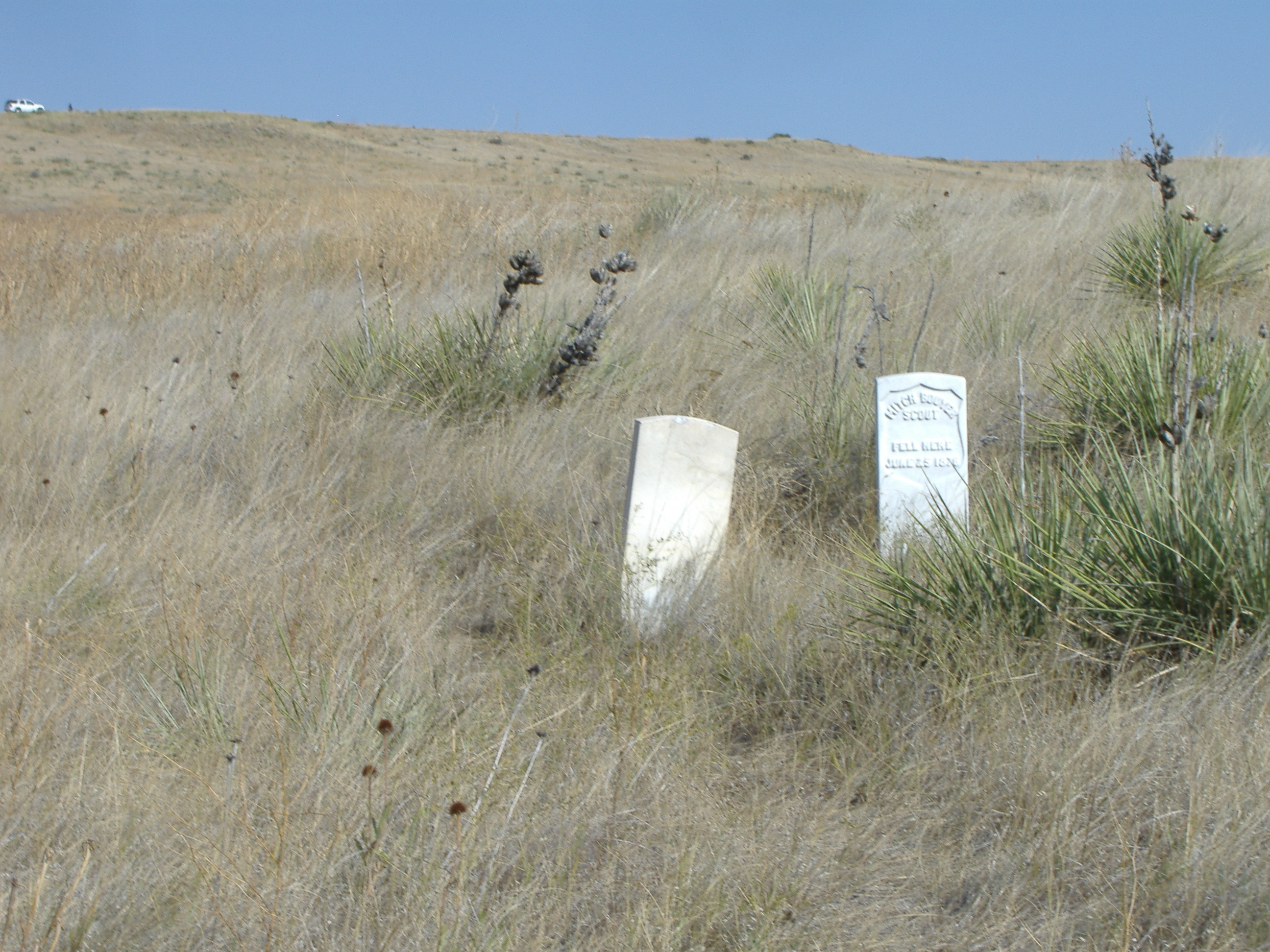 Mitch Boyer marker at Little Big Horn Battlefield National Monument